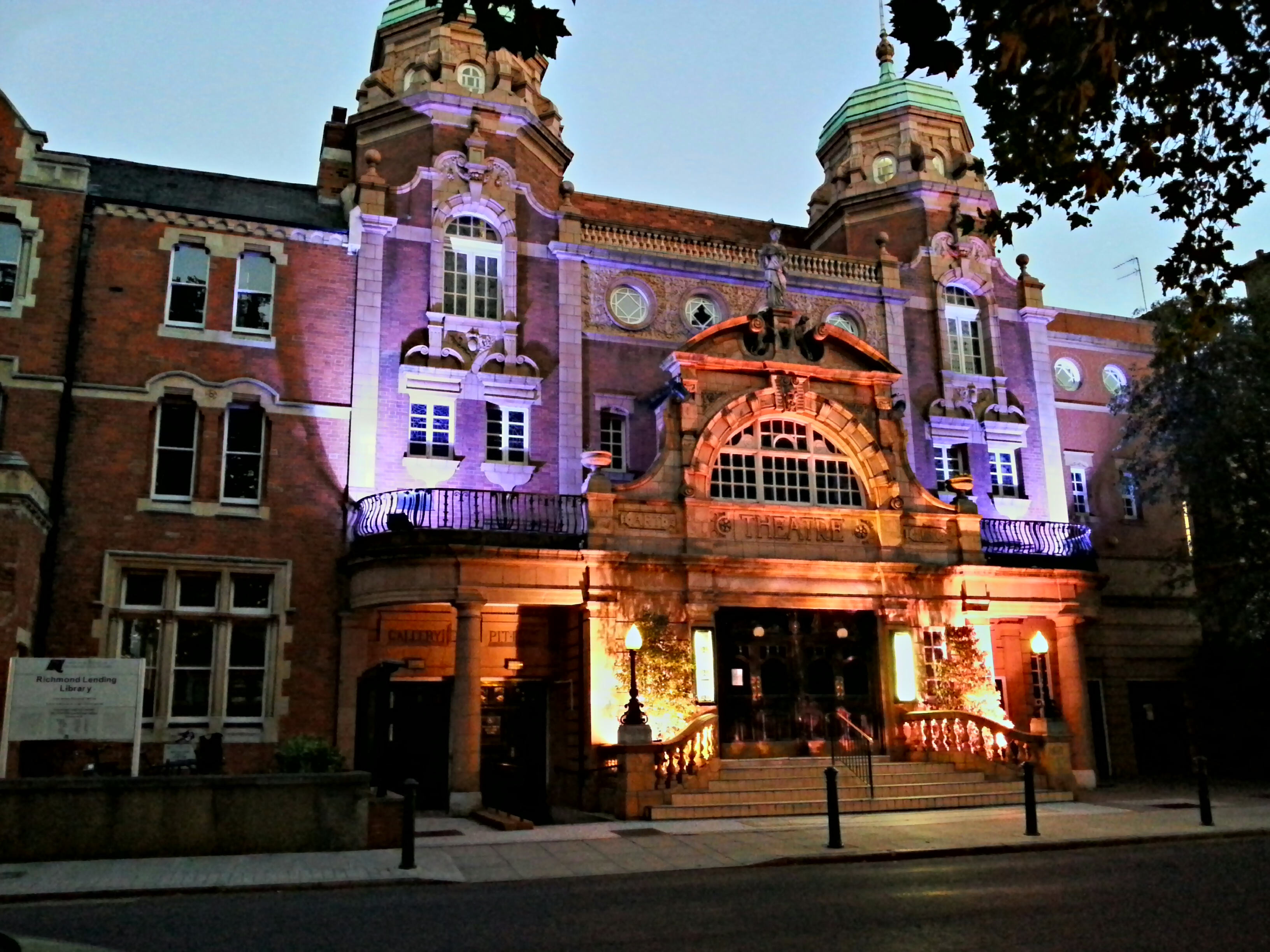 Richmond Theatre